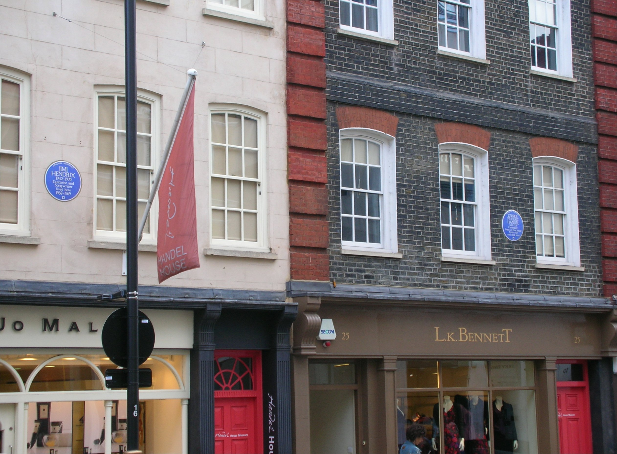 The houses of Jimi Hendrix and George Frideric Handel at 23 and 25 (now the Handel House Museum) Brook Street, London, England, showing the blue plaques. Photographed by me 29 September 2006. Oosoom 08:22, 2 October 2006 (UTC)